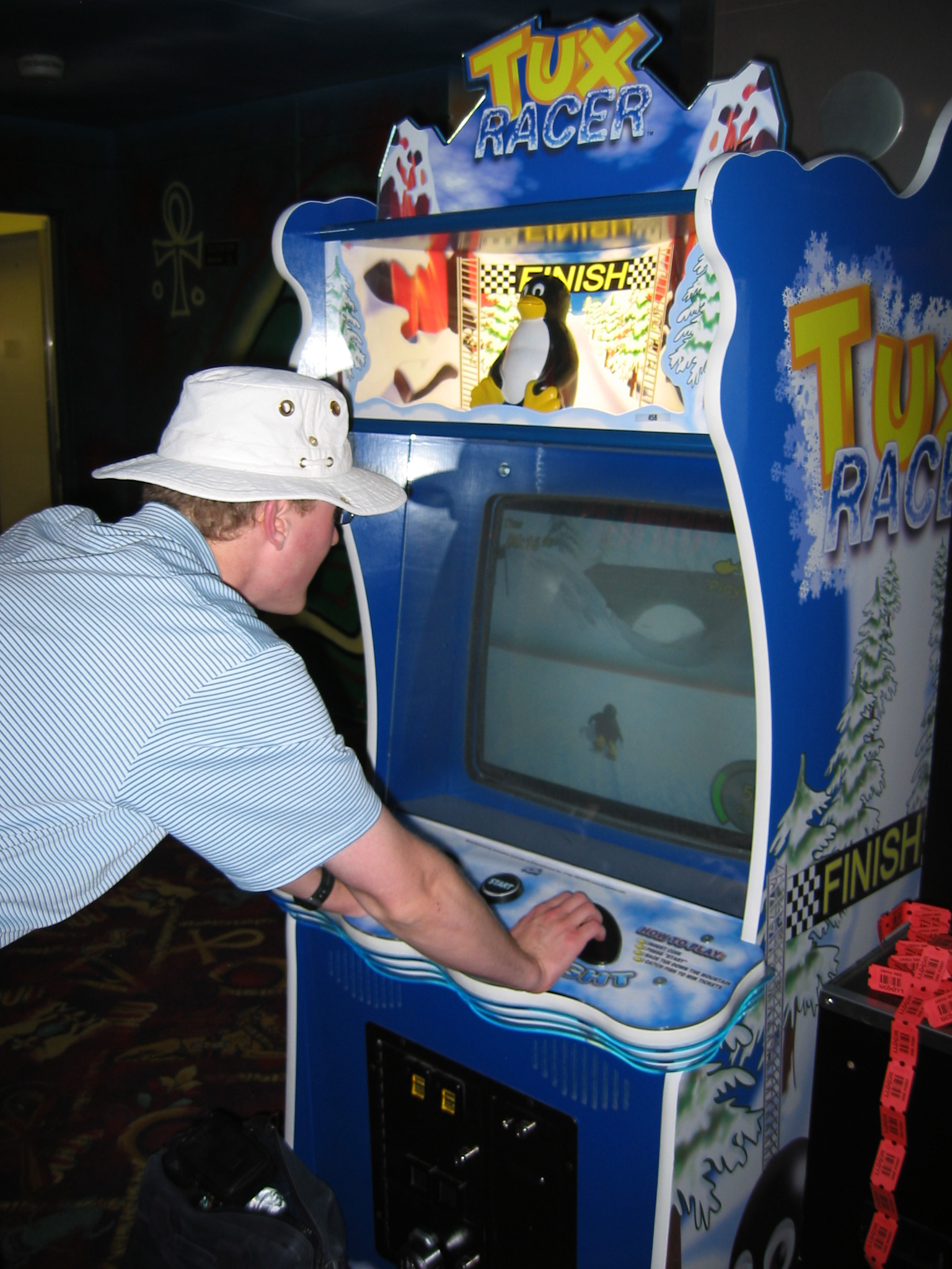 A Tux Racer game being played on an arcade cabinet in Las Vegas.